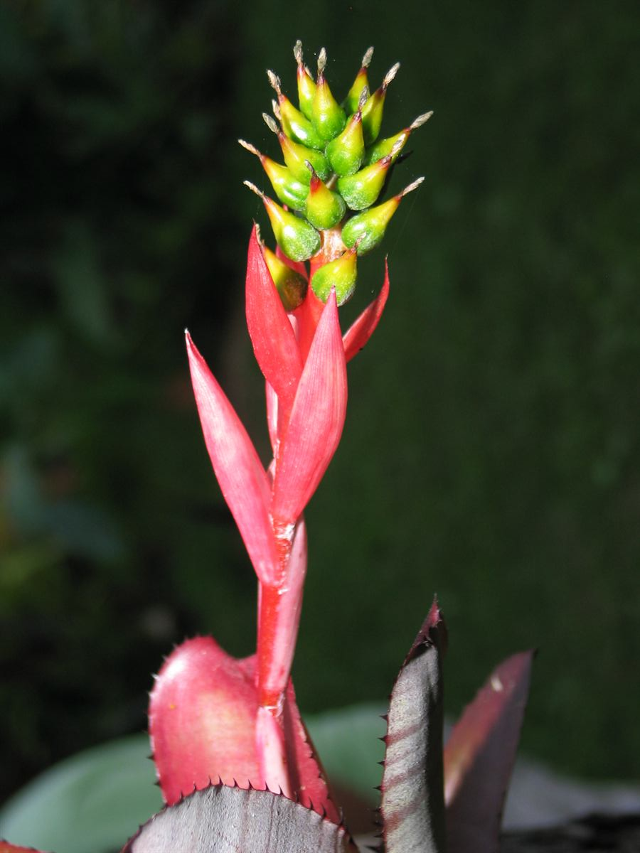 Aechmea nudicaulis var. aqualis with almost ripe seed pods